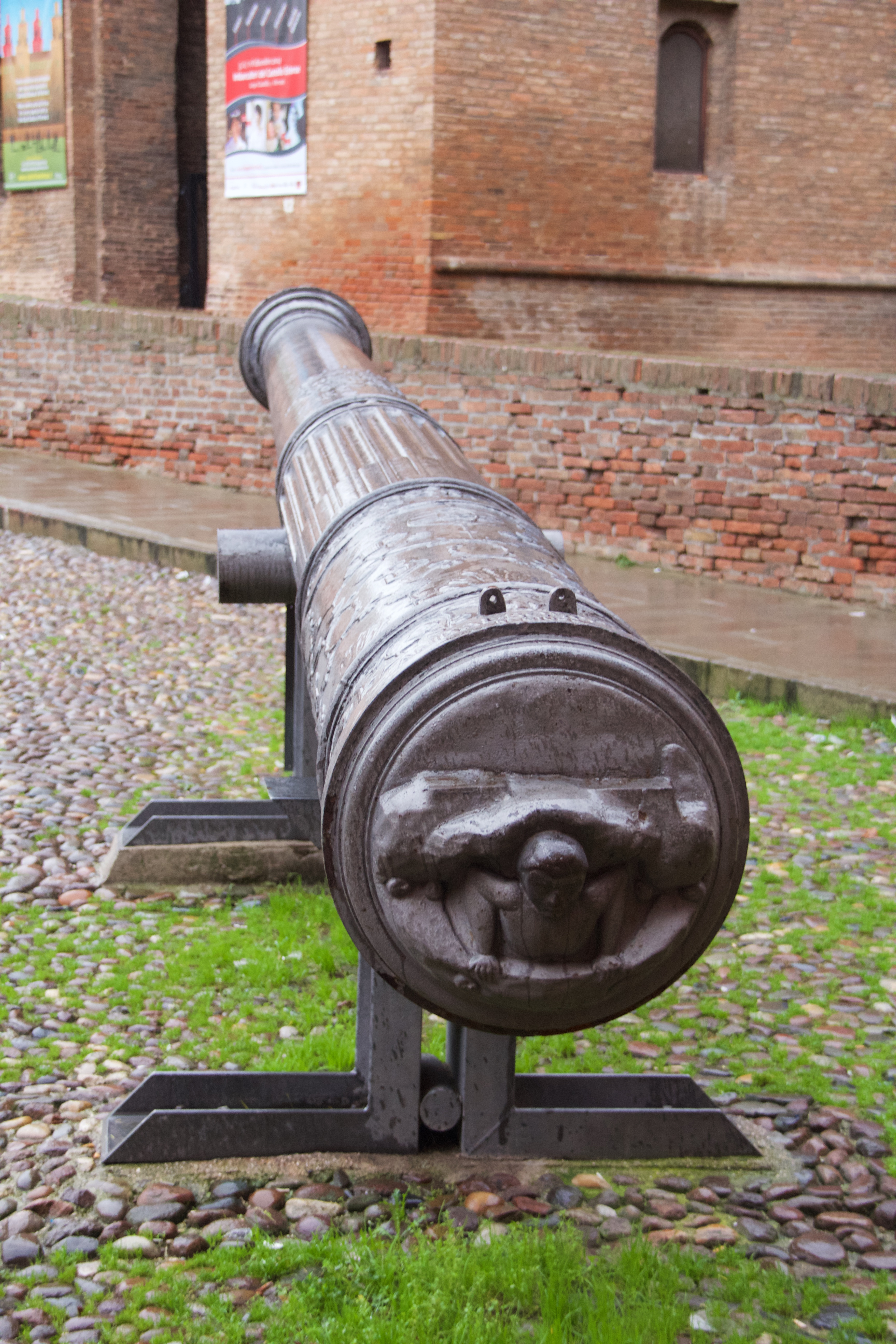 Cannon, Castello Estense, Ferrara, Italy.